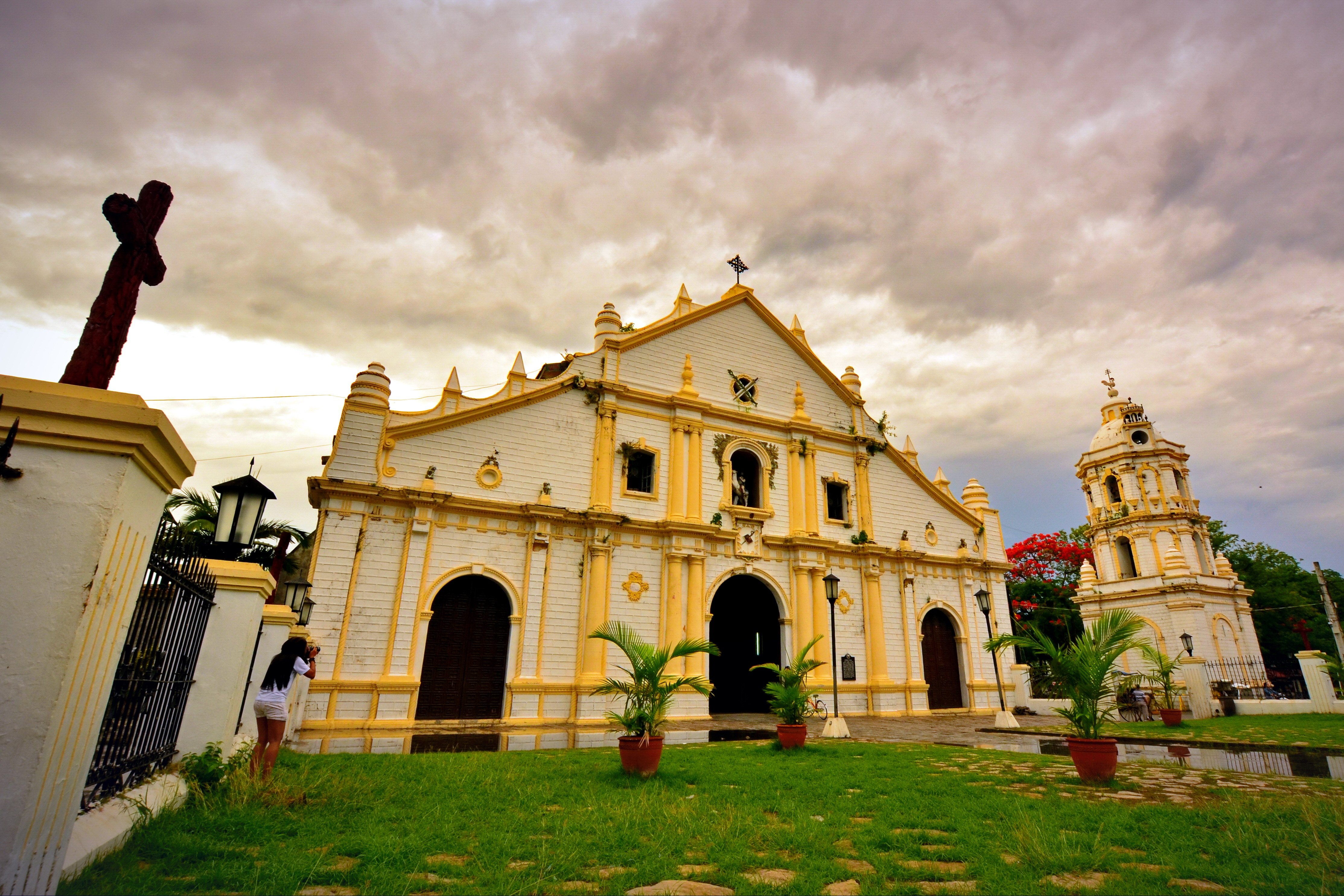 St. Paul Metropolitan Cathedral, Vigan City Paul Metropolitan Cathedral, Vigan City